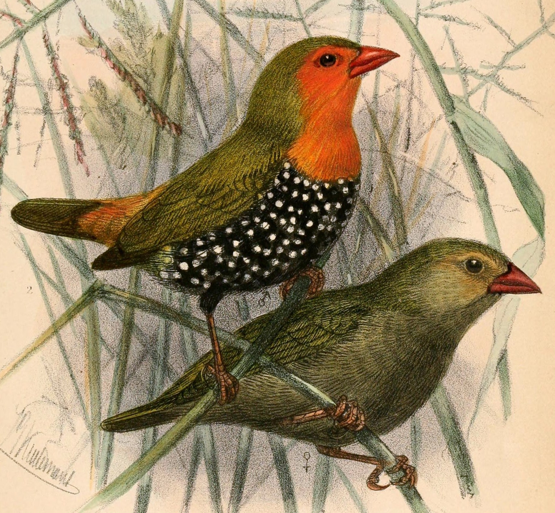 « Pytelia schlegeli » = Mandingoa nitidula schlegeli (Subspecies of Green-backed Twinspot) - male and female